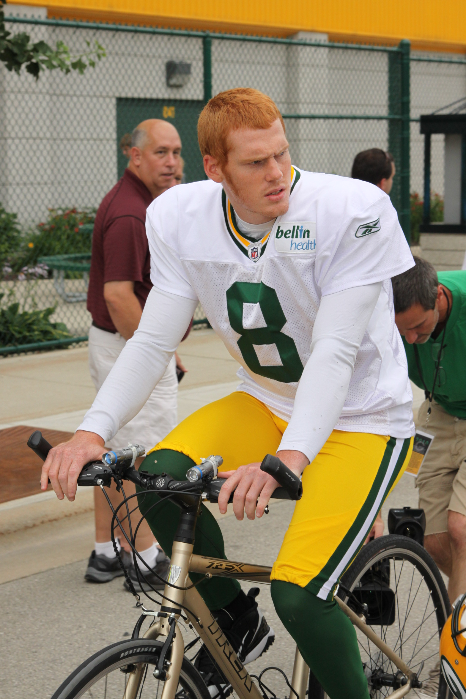 Green Bay Packers Punter Tim Masthay, riding a fan's bicycle at training camp, August 1, 2011, Green Bay WI